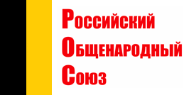 flag party Russian All-People's Union (ROS)